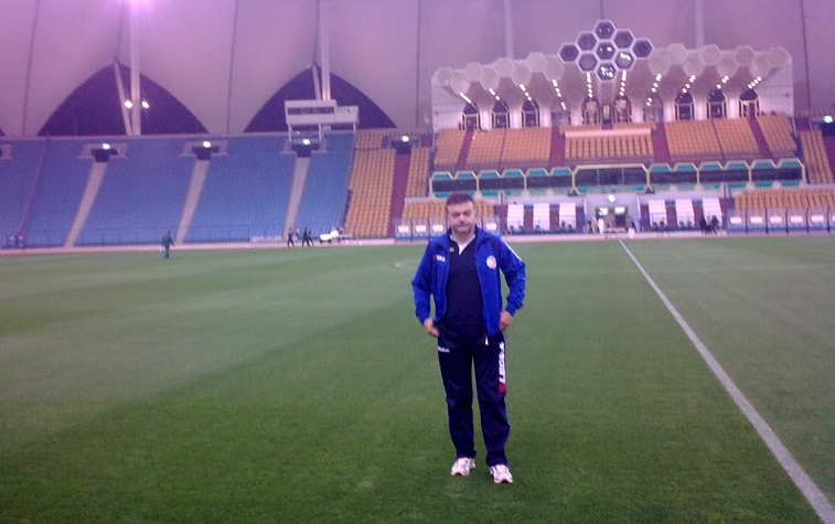 Canadian soccer coach Goran Miscevic at a soccer stadium in Riyadh, Saudi Arabia.